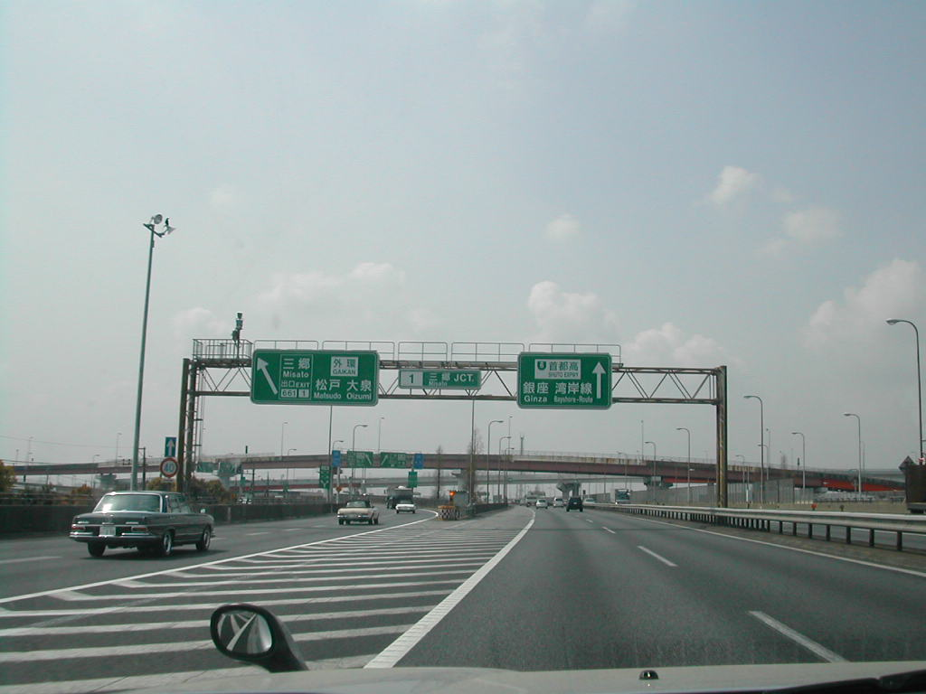 Misato Junction in Misato City, Saitama Prefecture, Japan